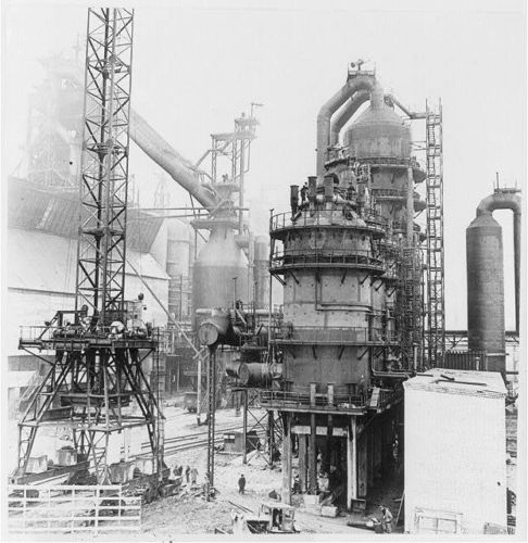 Title: Construction work on a new giant blast furnace ... iron-melting unit ... at Lenin Metallurgical Works in Krivoi Rog nearing completion Date Created/Published: 1960 Dec. Medium: 1 photographic print. Reproduction Number: LC-USZ62-73307 (b&w film copy neg.) Rights Advisory: Rights status not evaluated. For general information see "Copyright and Other Restrictions..." ( Call Number: LOT 9262 [item] [P&P] Repository: Library of Congress Prints and Photographs Division Washington, D.C. 20540 USA Notes: Photo by A. Zapari (TASS). This record contains unverified, old data from caption card. Caption card tracings: BI; Geogr.; Industry Iron; Ph. Ind. Collections: Miscellaneous Items in High Demand Bookmark This Record